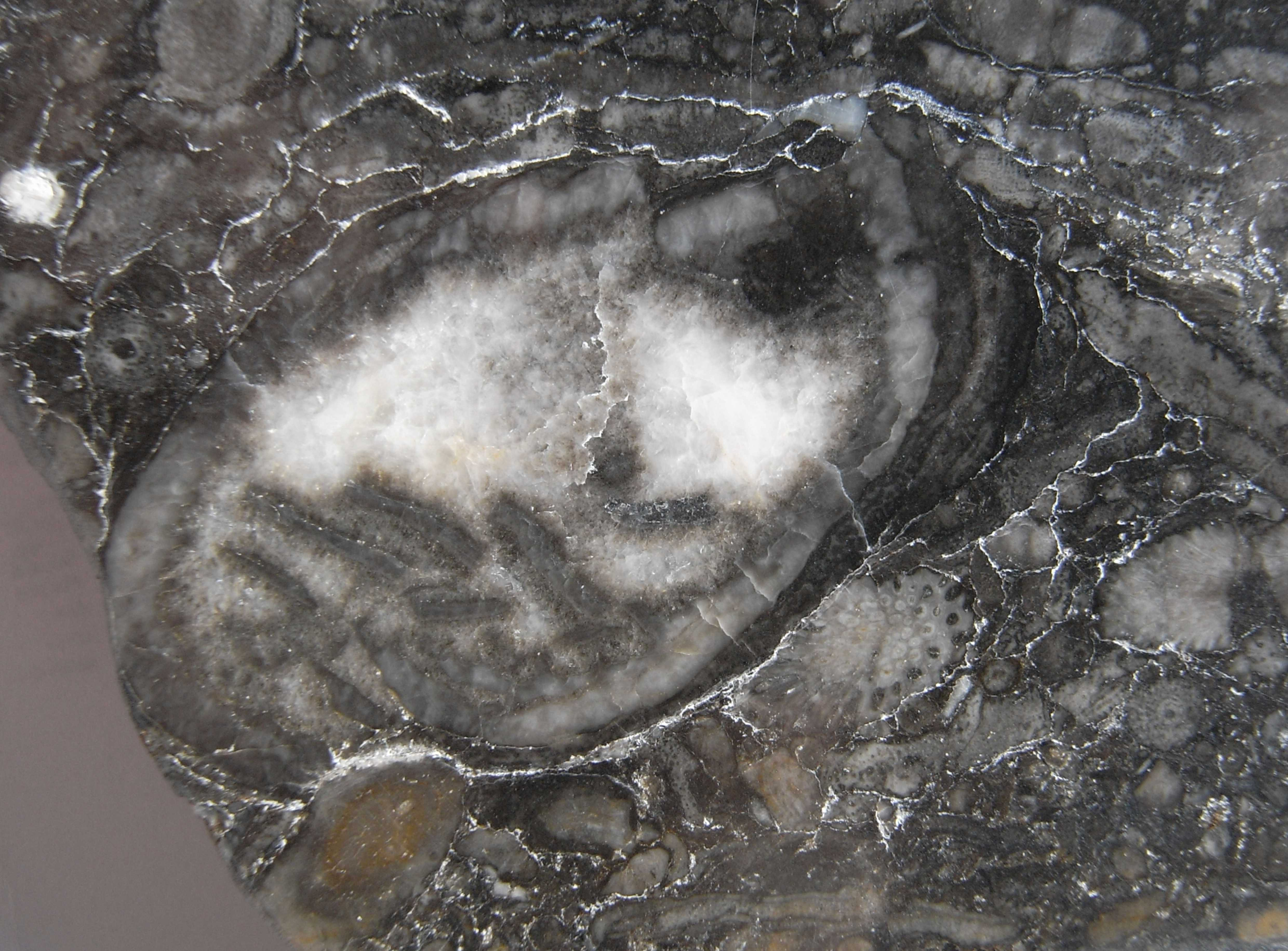 Fossil spirit level (limestone), Hesse, Germany